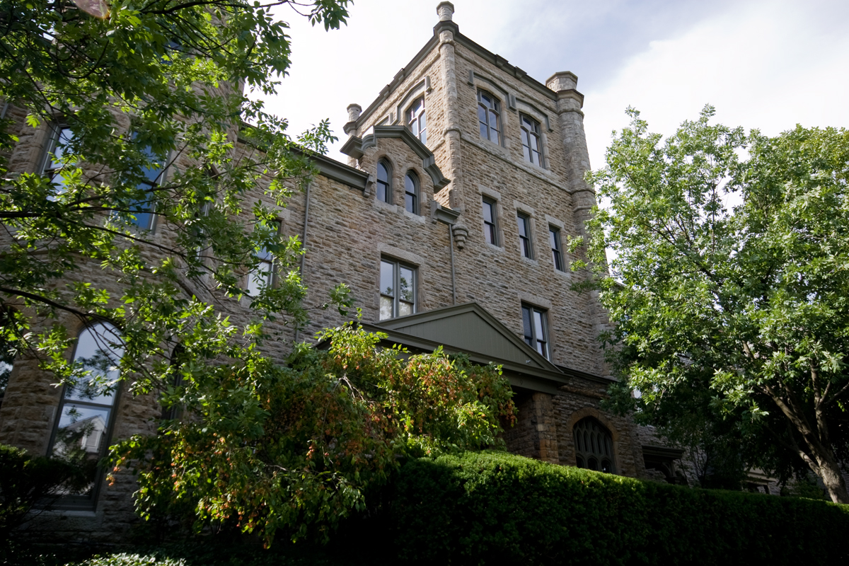 Hewson-Gutting House in Cincinnati, OH. Photo by Greg Hume.